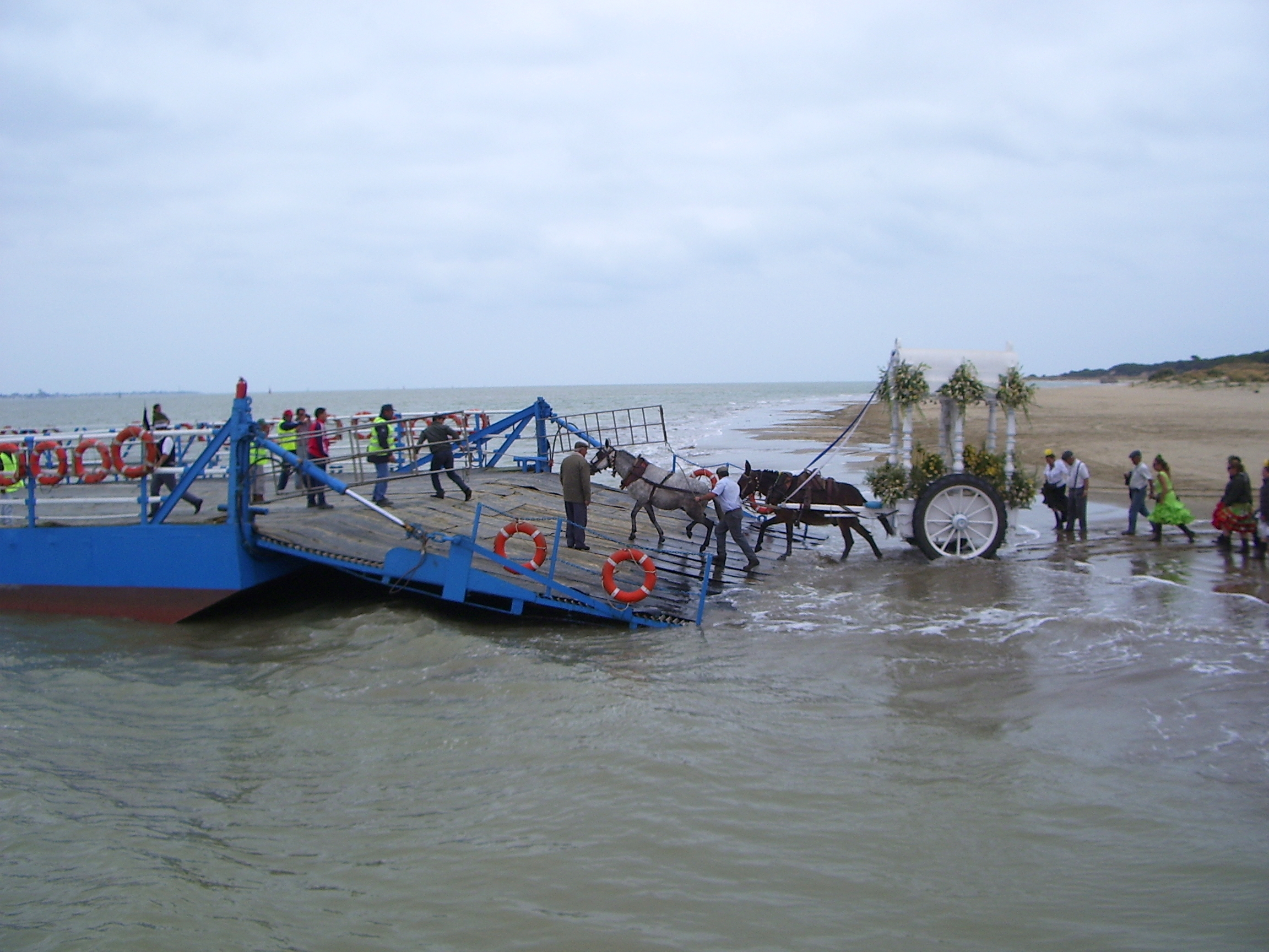 Simpecado embarking on the beach of the Coto de Doñana towards Sanlucar de Barrameda, on the way back from the pilgrimage of El Rocío, May 2009.